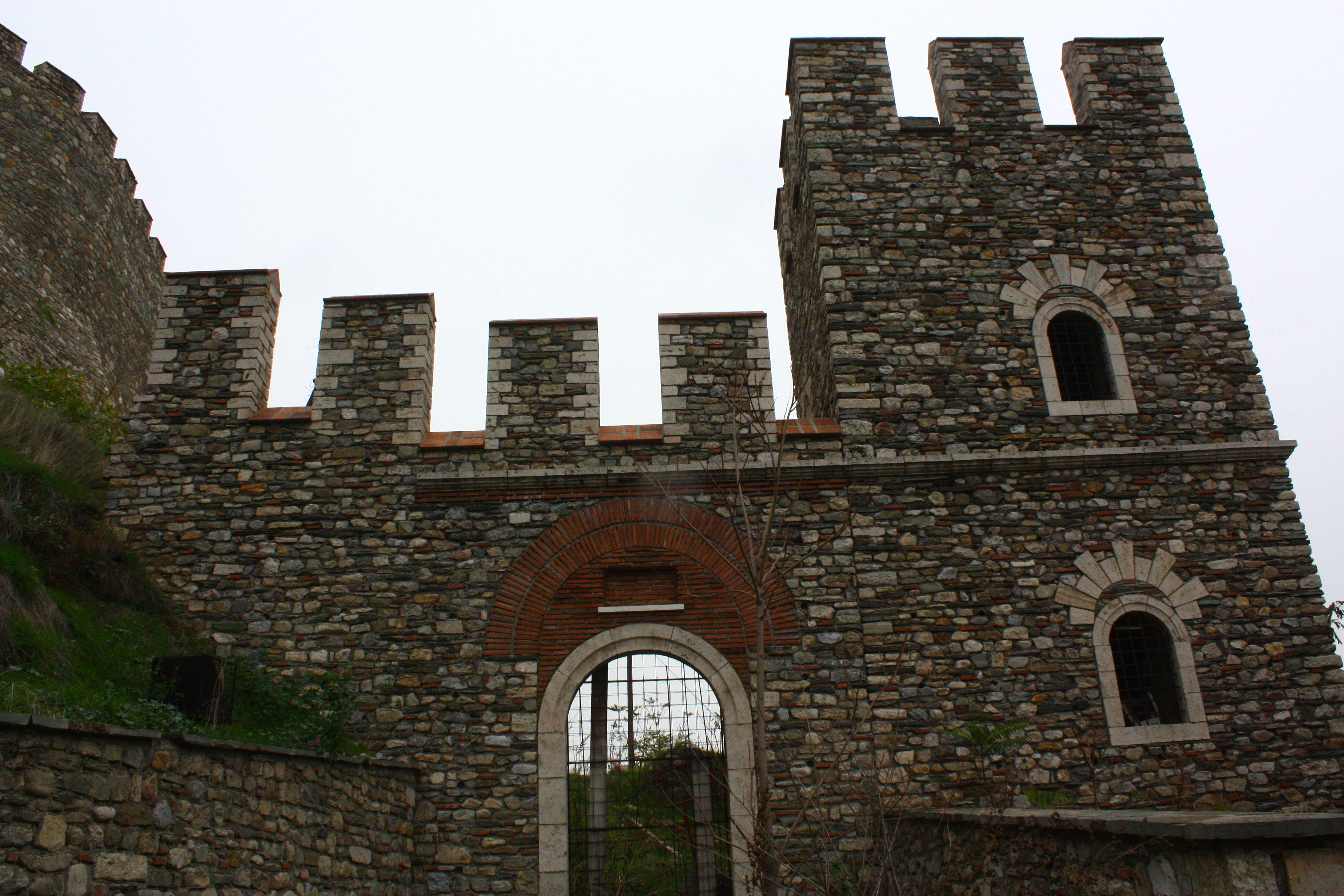 Skopje Fortress This image is uploaded as part of the picture contest Wiki Loves Cultural Heritage in Macedonia 2013. English | македонски | +/−